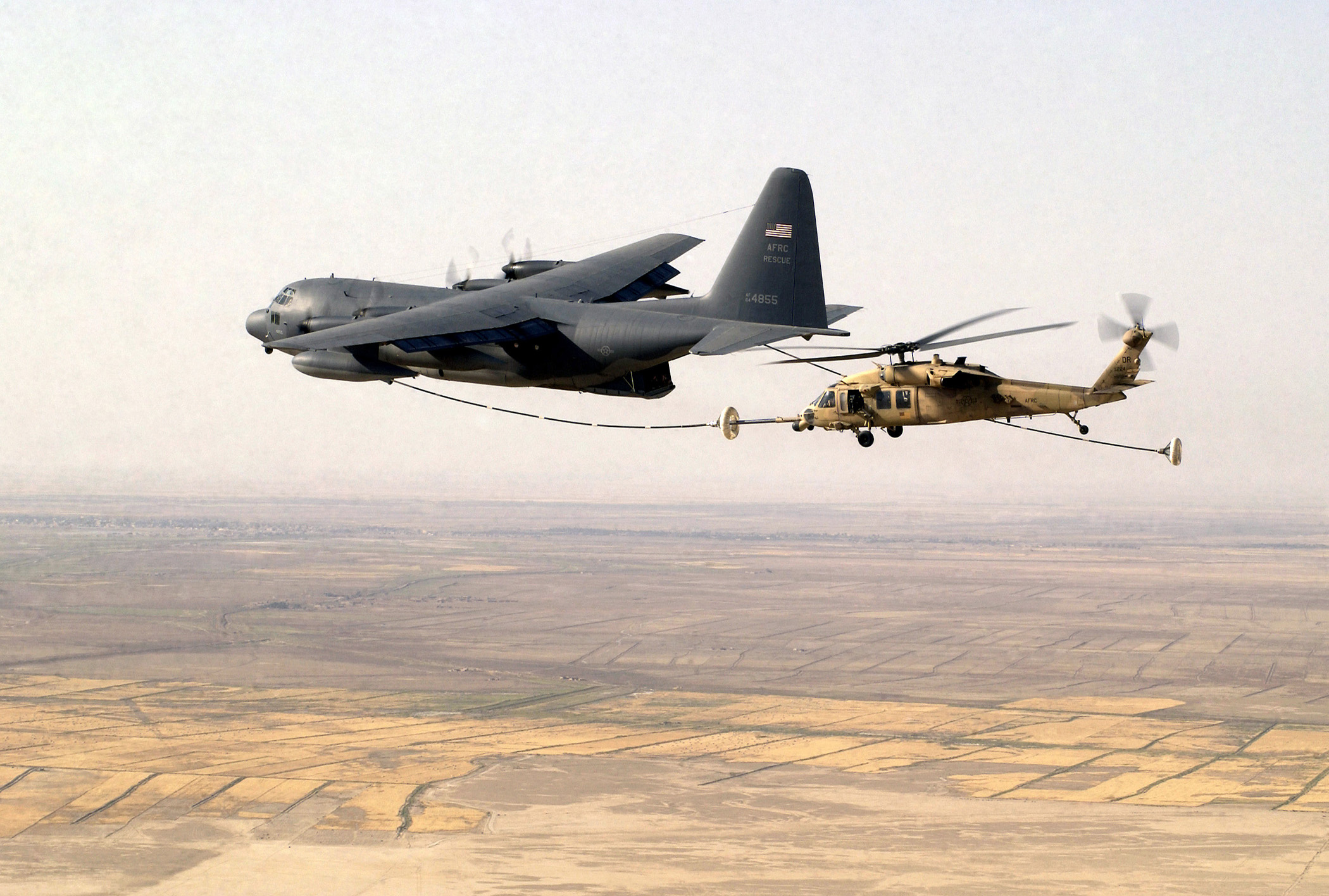 A US Air Force Reserve HH-60G Pave Hawk search and rescue helicopter assigned to the 301st Rescue Squadron, conducts in-flight refueling with a Air Force Reserve Command HC-130 Hercules tanker aircraft from the 39th Rescue Squadron, during a mission over Tallil Air Base, Iraq, during Operation Iraqi Freedom (U.S. Air Force photo/Staff Sgt. Shane Cuomo)